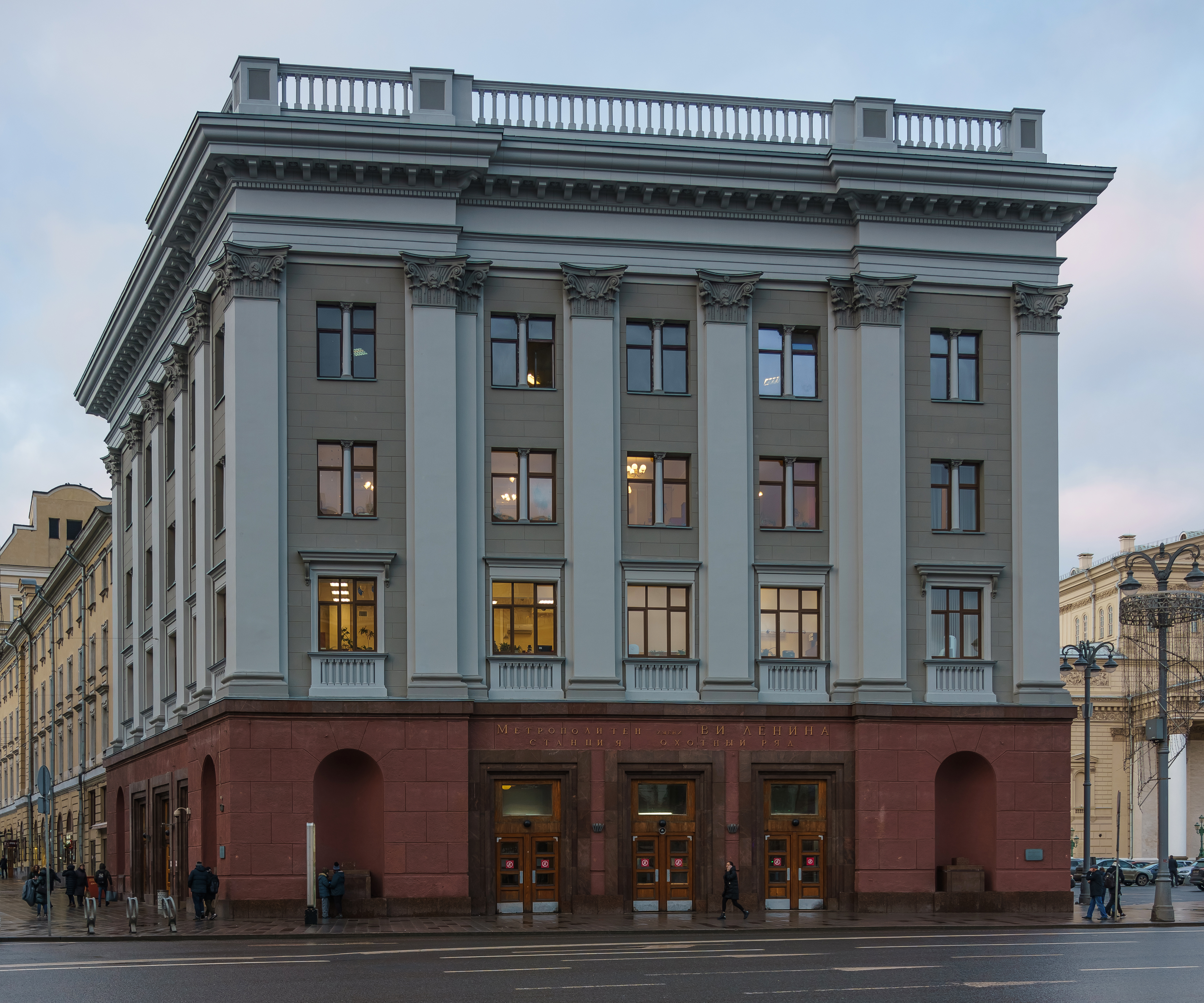 Building with built-in joint entrance of Okhotny Ryad and Teatralnaya metro stations in Moscow, Russia